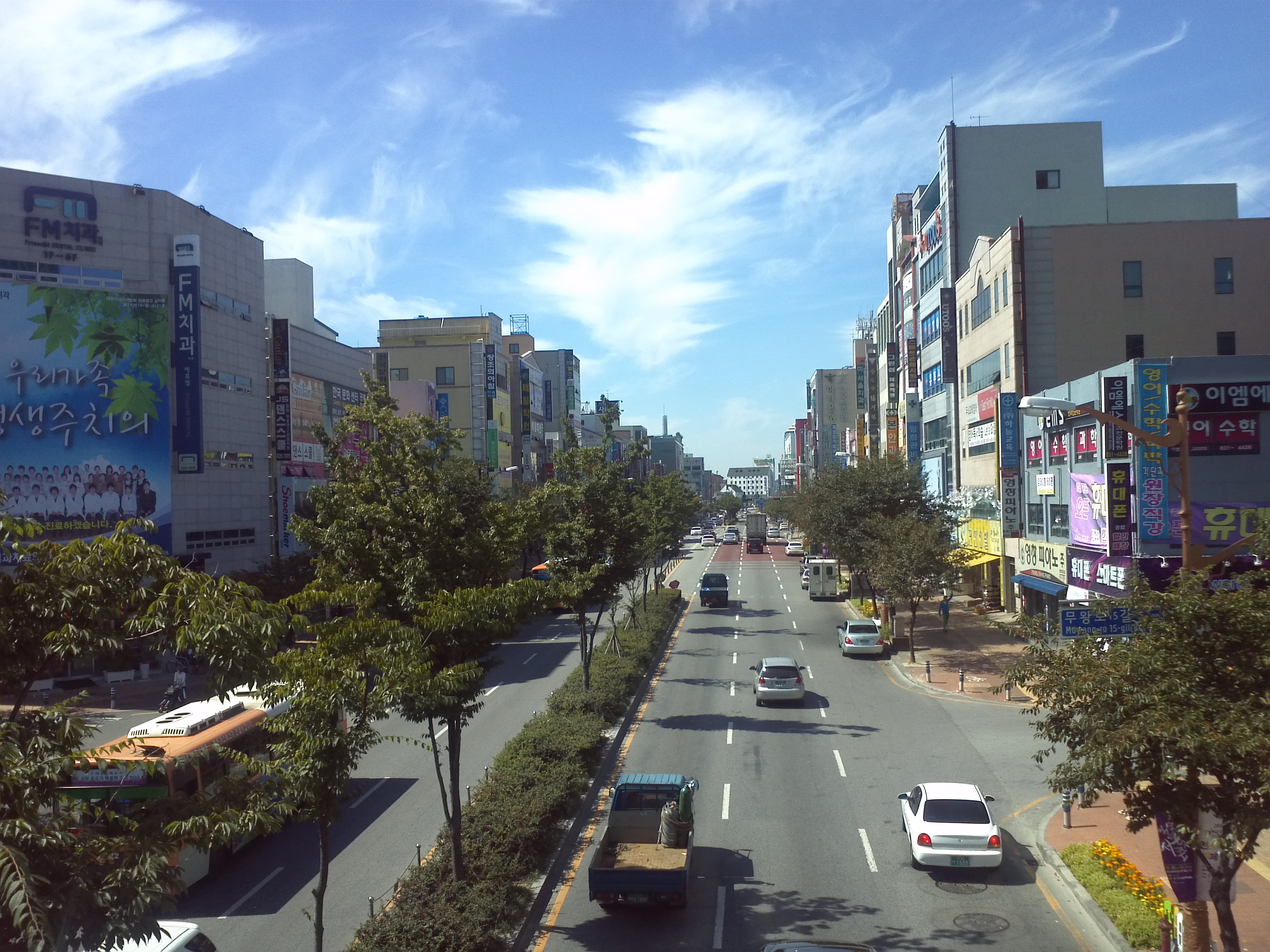 This is a photo of the main street in Young Deung Dong Iksan.